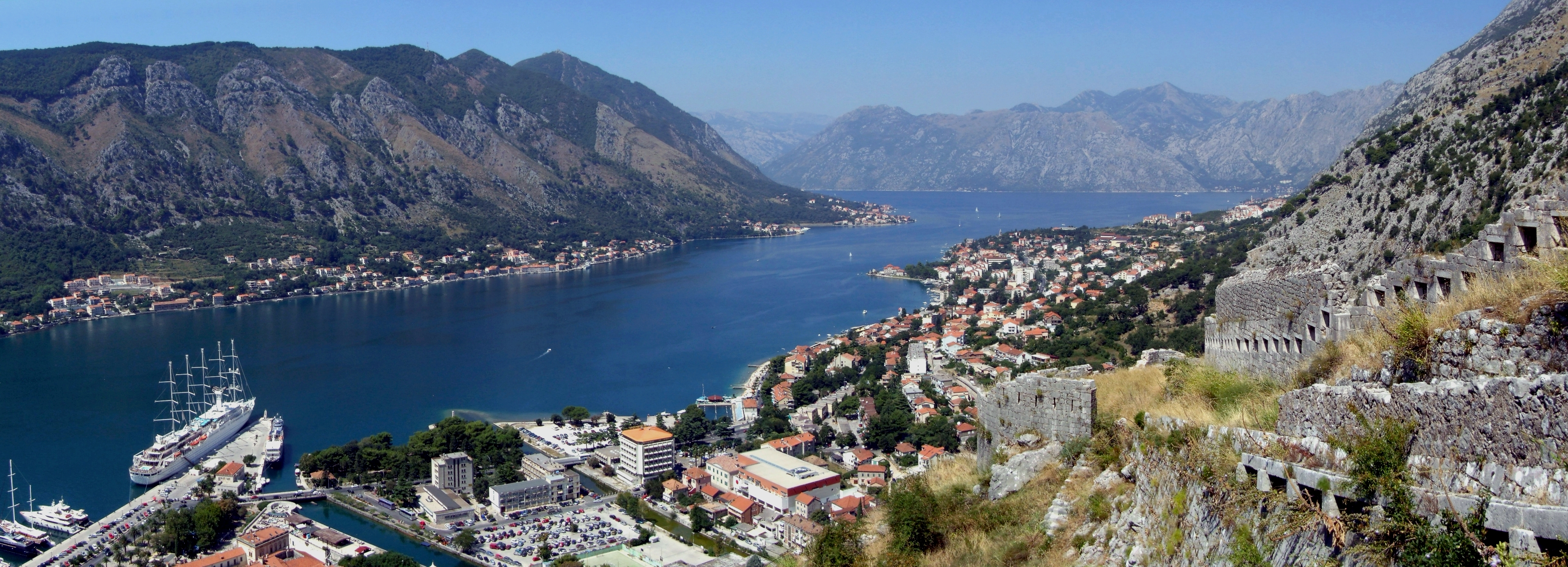 Kotor and Boka kotorska - panorama from city wall